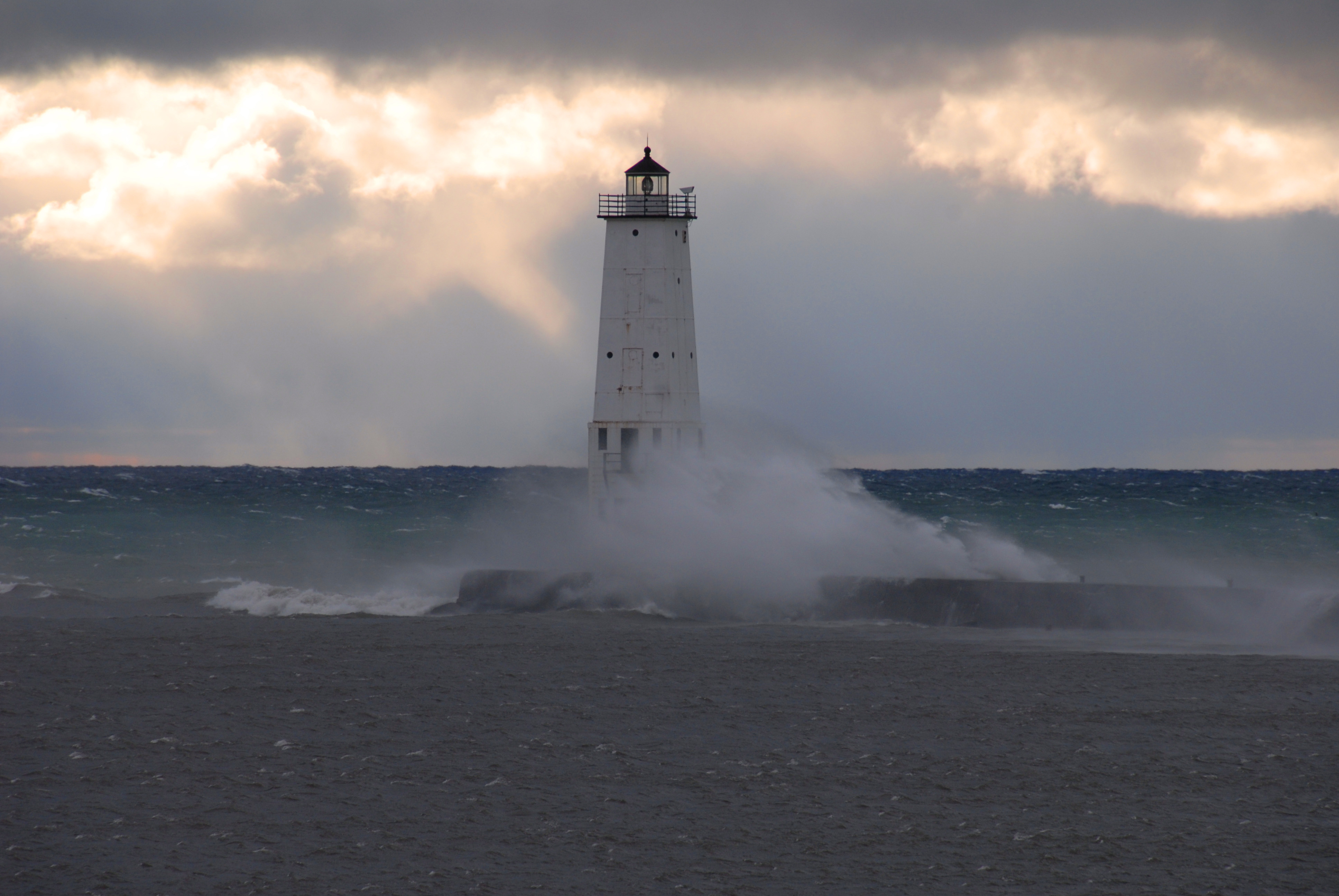 Frankfort Light in Frankfort, Michigan, USA